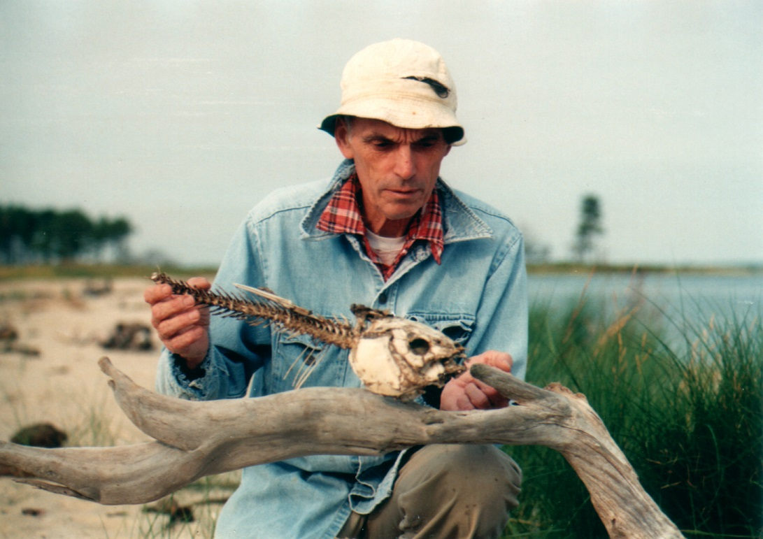 When searching for images, colleagues of scientists are an important resource, as shown in the case of Dr. Michael Potter. Potter worked at #theNCI for nearly 50 years. His work with plasma cell tumors was instrumental in characterizing the structure and function of antibodies. Potter was a teacher who freely shared his time, ideas, and materials with colleagues and competitors. He enjoyed trips to the Chesapeake Bay to fish, comb the beaches, and muse about science with friends, colleagues, and family. This photo, of Potter examining a skeleton on one such trip to James Island in the Chesapeake Bay (1980s), came to us courtesy of Dr. Beverly Mock, Potter’s successor at NCI.